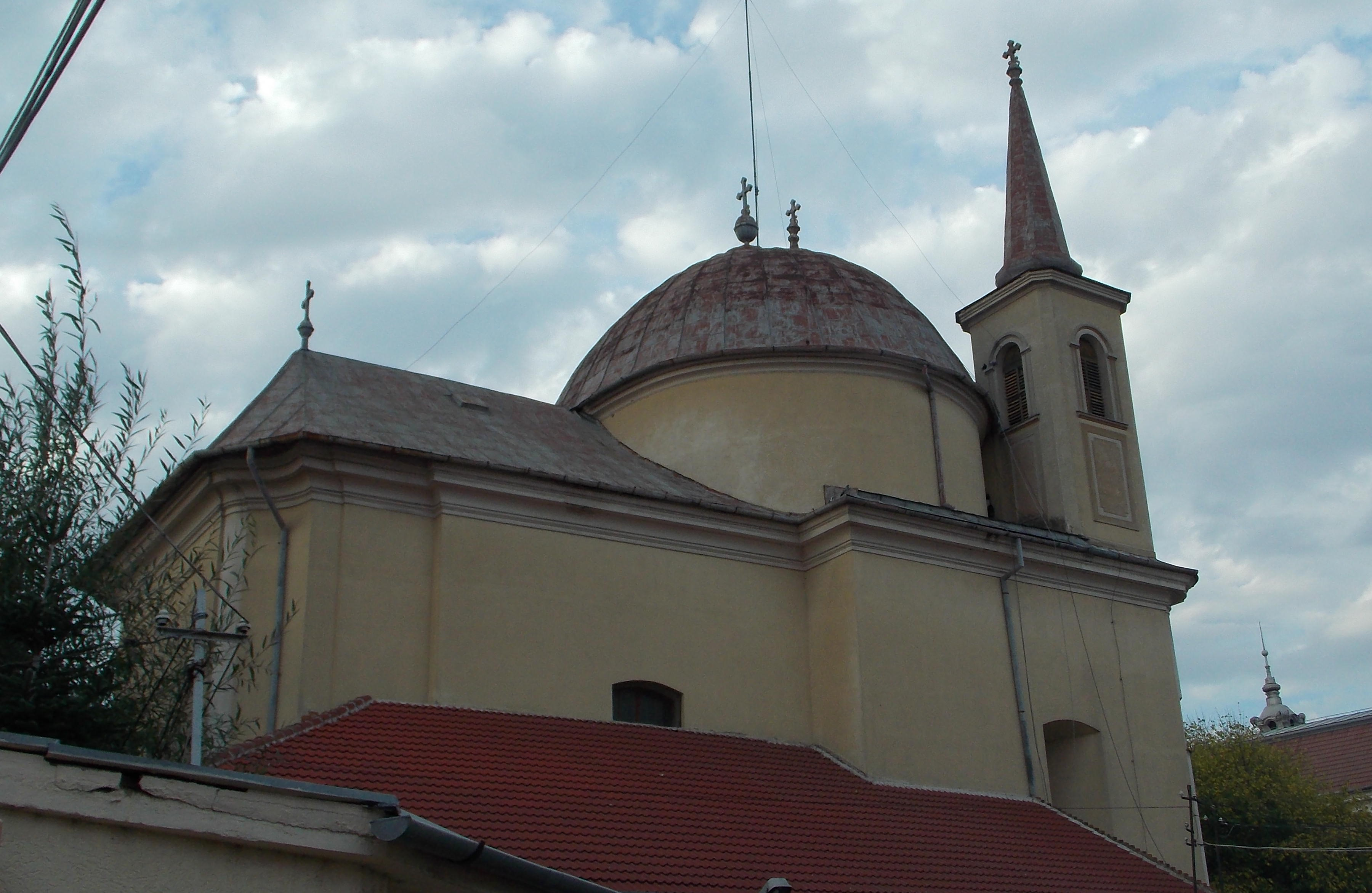 "Guardian angel" roman-catholic chapel